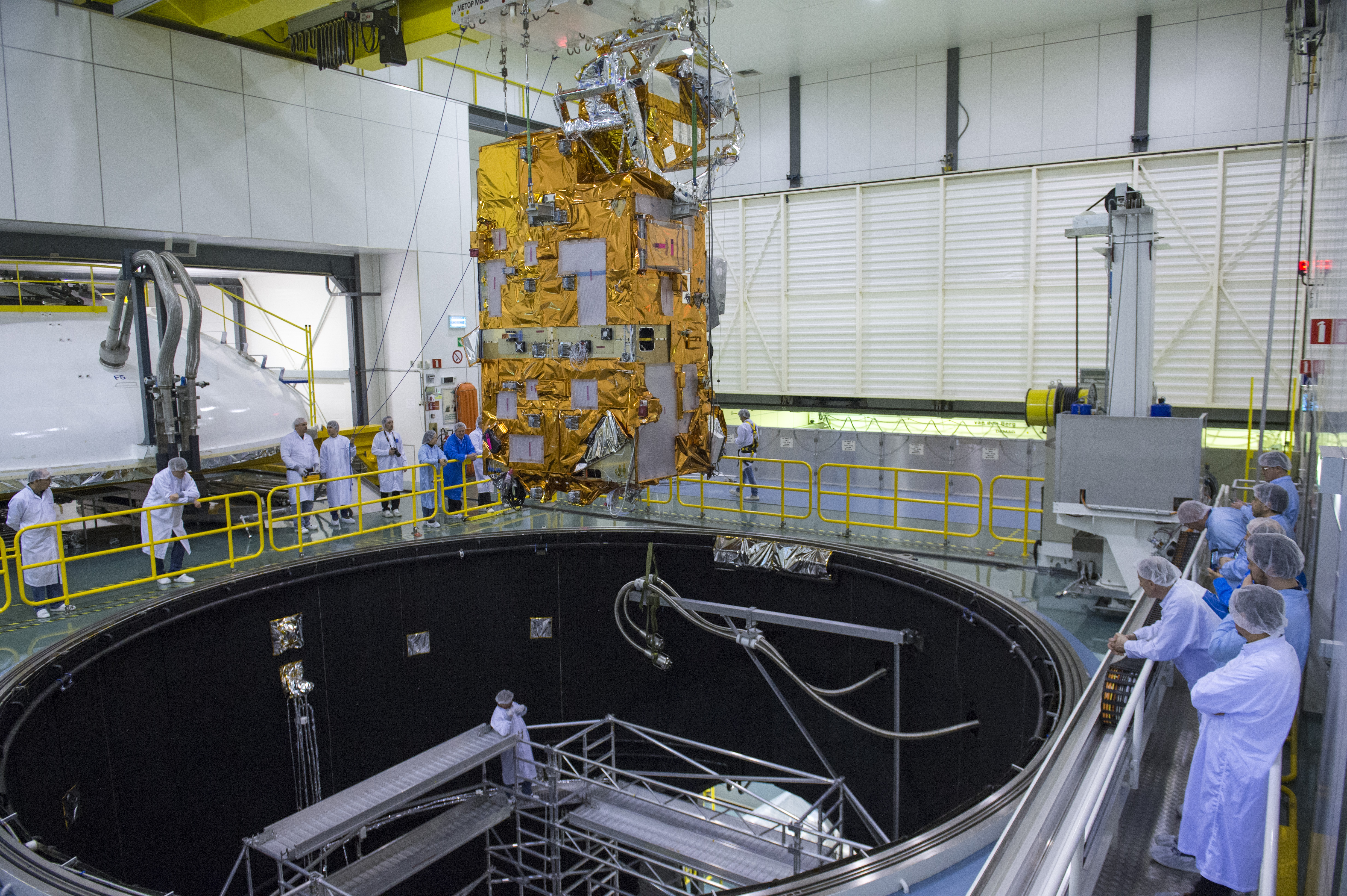 In the same way that individual components and systems are tested to ensure their readiness for the violence of launch and the vacuum and temperetures extremes of space, the same is true of complete satellites. That is the task of a 3000 sq. m cleanroom complex nestled in sandy dunes along the Dutch coast, filled with test equipment to simulate all aspects of spaceflight: the ESTEC Test Centre. Its major infrastructure includes Europe’s biggest vacuum chamber, equipped with a Sun simulator with liquid nitrogen run through its walls to reproduce space conditions; Europe’s loudest sound system, used to blast satellites with simulated launch noise and Europe’s most powerful hydraulic shaker table, reproducing launcher vibrations equivalent to a major earthquake.